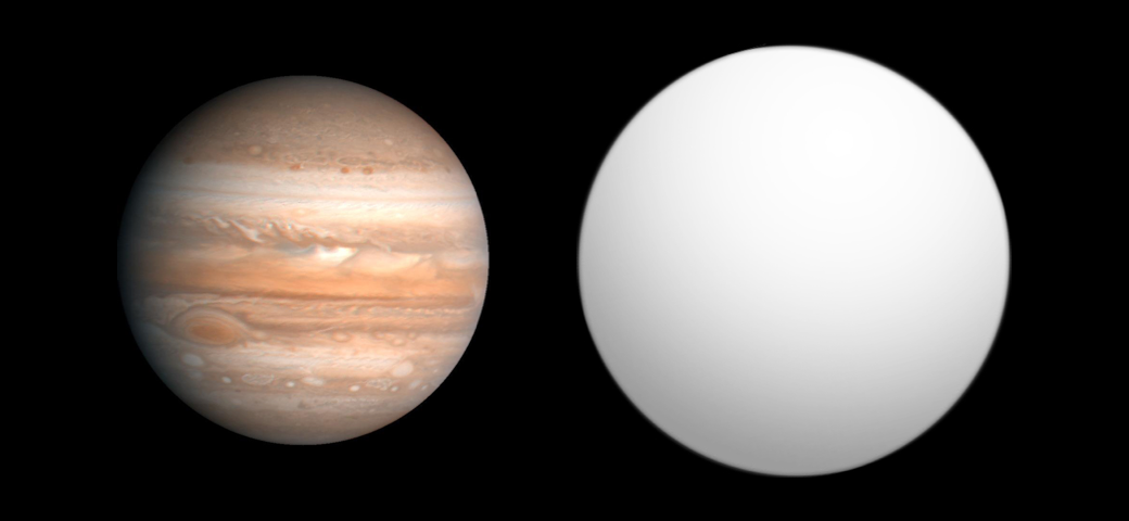 Comparison of best-fit size of the exoplanet CoRoT-6 b with the Solar System planet Jupiter, as reported in the Extrasolar Planets Encyclopaedia[1] as of 2010-10-03. ↑ Extrasolar Planets Encyclopaedia (2010-09-30). Retrieved on 2010-10-03.